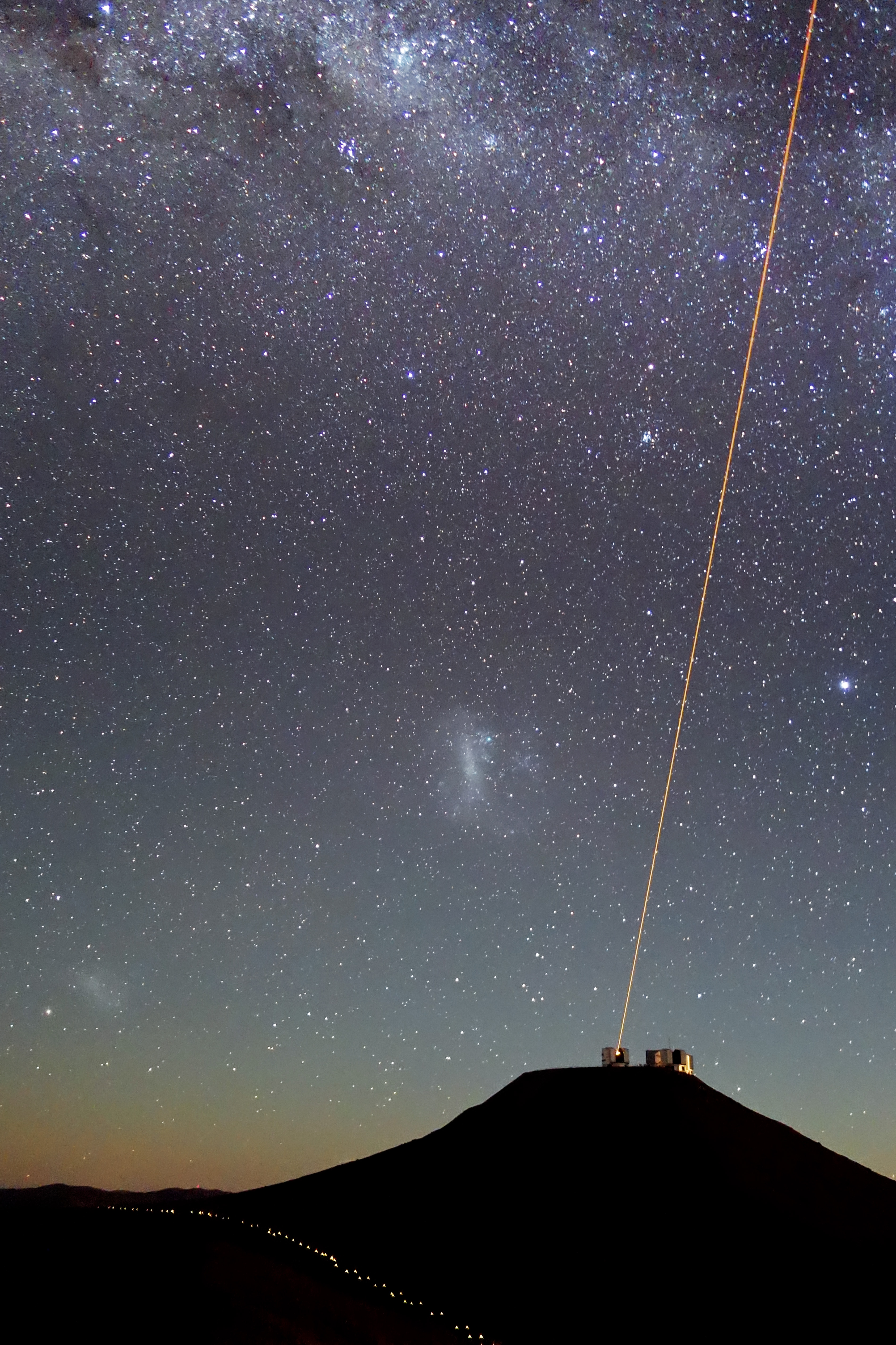 A solitary laser beam cuts through the night sky. It streaks upwards from Unit Telescope 4 of ESO's Very Large Telescope, located at Paranal Observatory in Chile. The two Magellanic Clouds are visible to the left of the beam as faint, fuzzy patches against the starry background. The particularly bright star to the right of the beam is Canopus, the second brightest star in our night sky after Sirius. When ground-based telescopes view stars, the light they collect must travel through the layers of our atmosphere. The same water vapour, pollution, and turbulence that causes the stars in the sky to twinkle also result in blurred images— so in comes a technique known as adaptive optics. Adaptive optics systems use sophisticated deformable mirrors to counteract the negative effects of our atmosphere. The laser shines up into the sky, creating an artificial star about 90 kilometres from the ground. Astronomers can then measure how this fake star twinkles in time, and can correct for this distortion. Telescopes that use adaptive optics can produce images sharper than those from space-based telescopes at certain wavelengths. A similar system is to be installed on the European Extremely Large Telescope (E-ELT). The E-ELT willhave six lasers, which will provide even higher-quality astronomical images over a much larger field-of-view — and provide more opportunities for striking snaps like this one. This image was taken on 4 March 2013 from the Visible and Infrared Survey Telescope for Astronomy (VISTA) platform by ESO photo ambassador Julien Girard, a staff astronomer at ESO. It was taken using a point and shoot compact camera which nowadays can perform night photography.